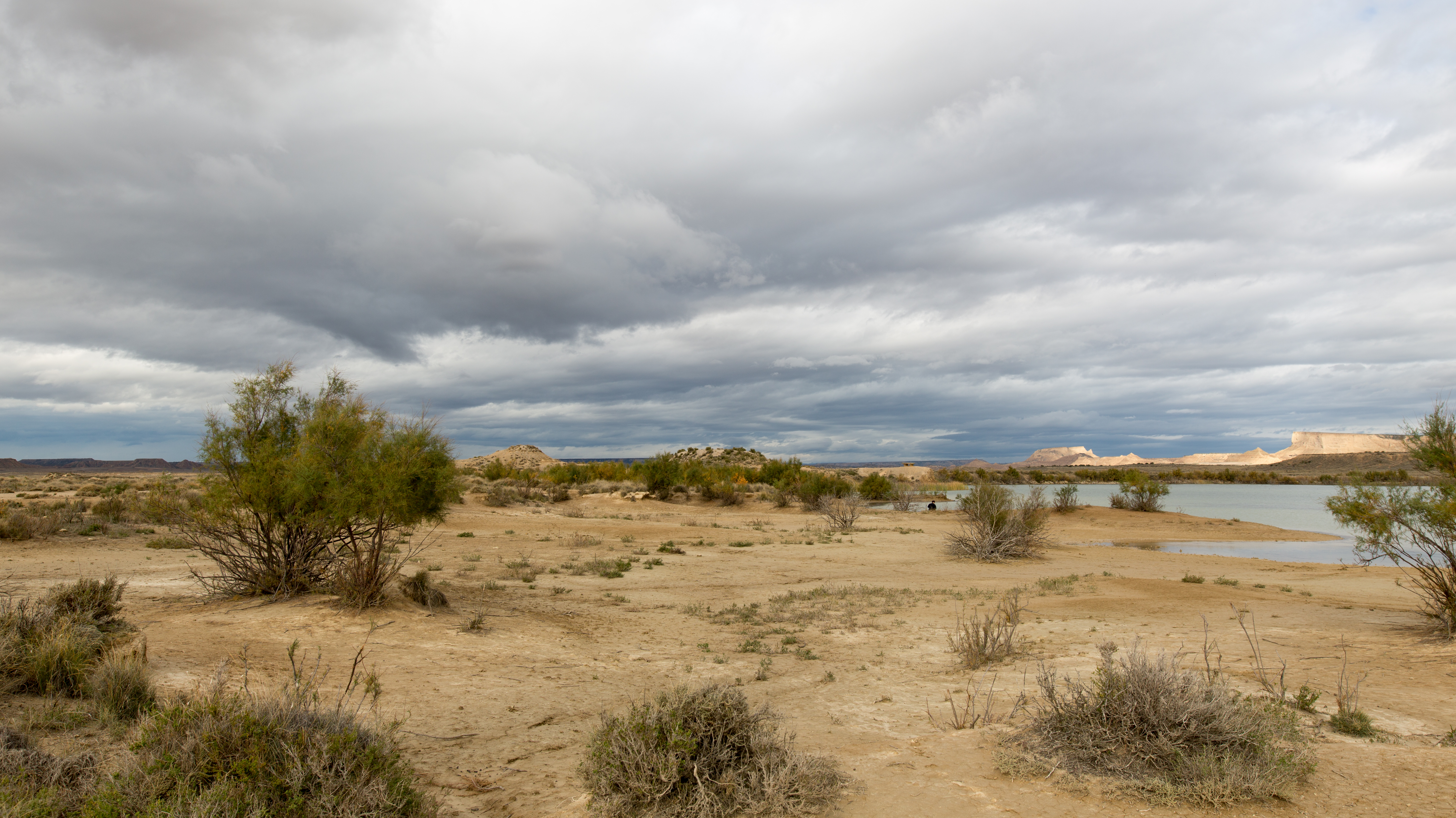 balsa de Zapata